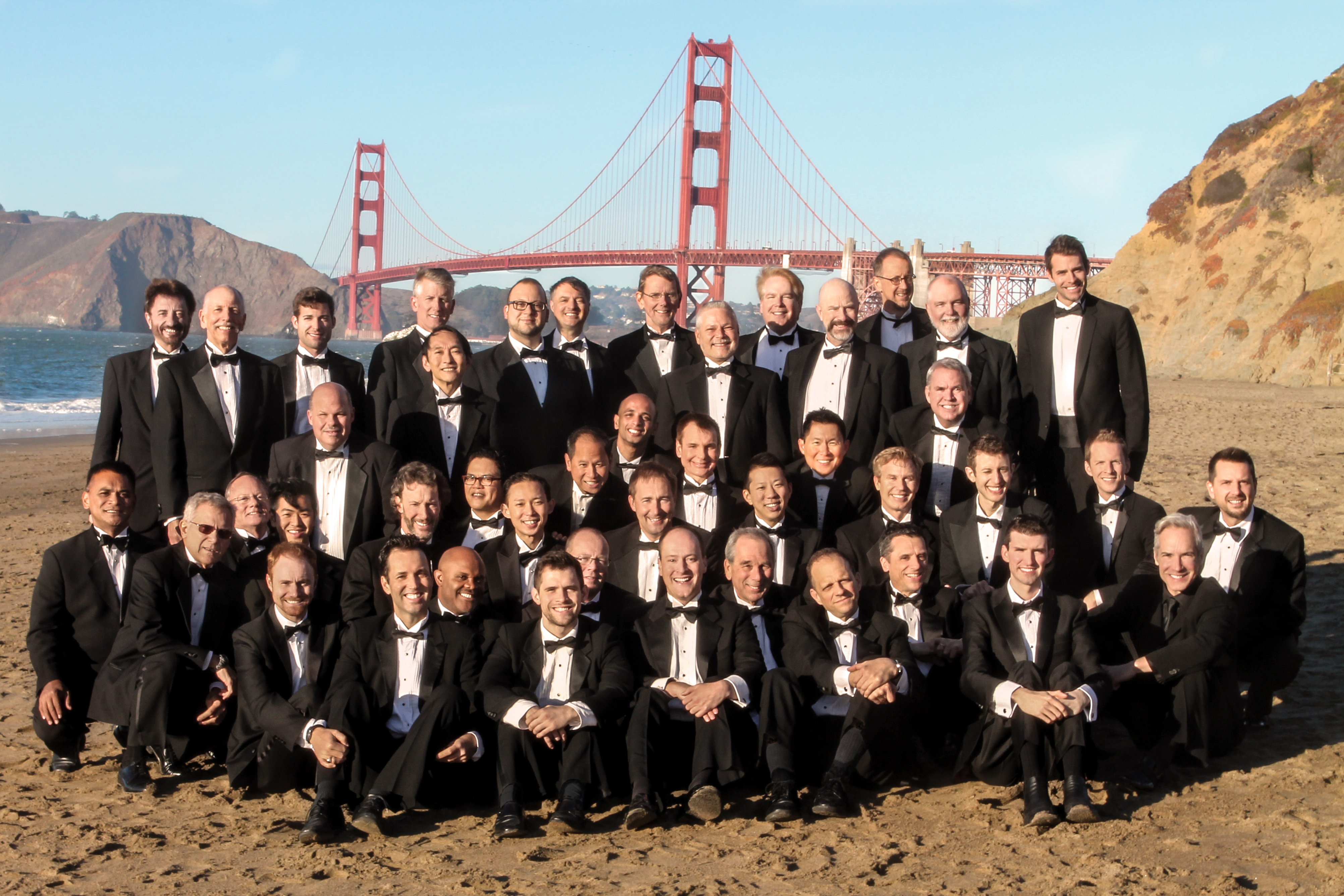 Golden Gate Men's Chorus, taken November 16, 2013 at Baker Beach, San Francisco, California